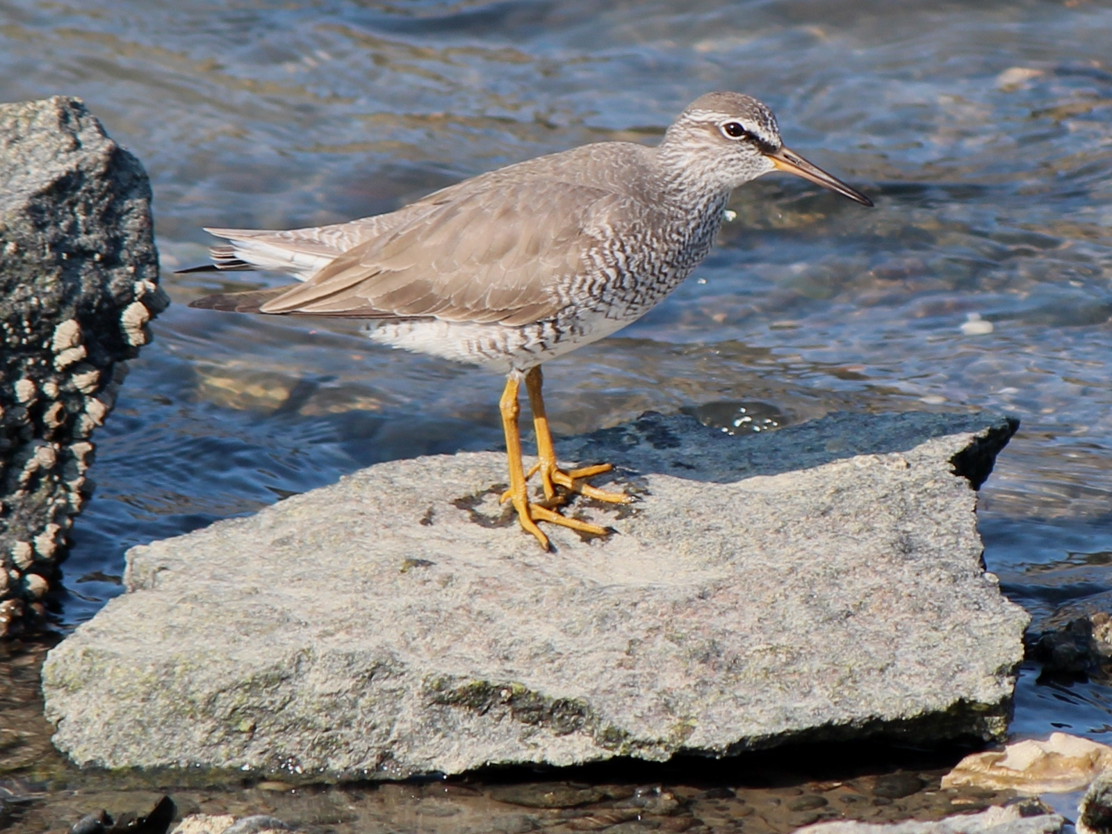 Tringa brevipes (Grey-tailed Tattler) on rock, Shiokawa Higata, Aichi Prefecture, Japan.